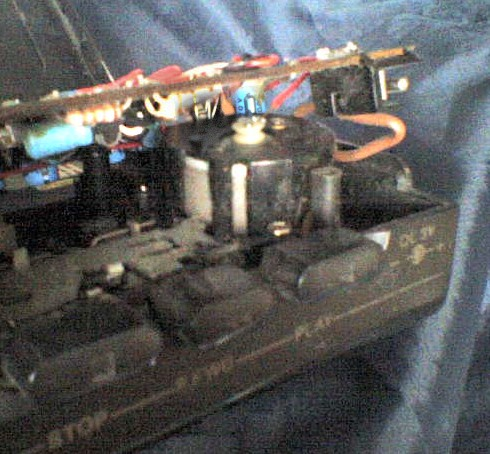 DC motor from an old cassette player, probably unipolar. (photographed by my mobile phone, sorry for the quality)